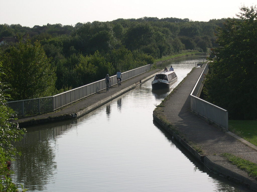 Aqueduct carrying the Grand Union Canal over Grafton Street, New Bradwell, Milton Keynes, Buckinghamshire. The first GUC aqueduct to be built in more than 100 years.